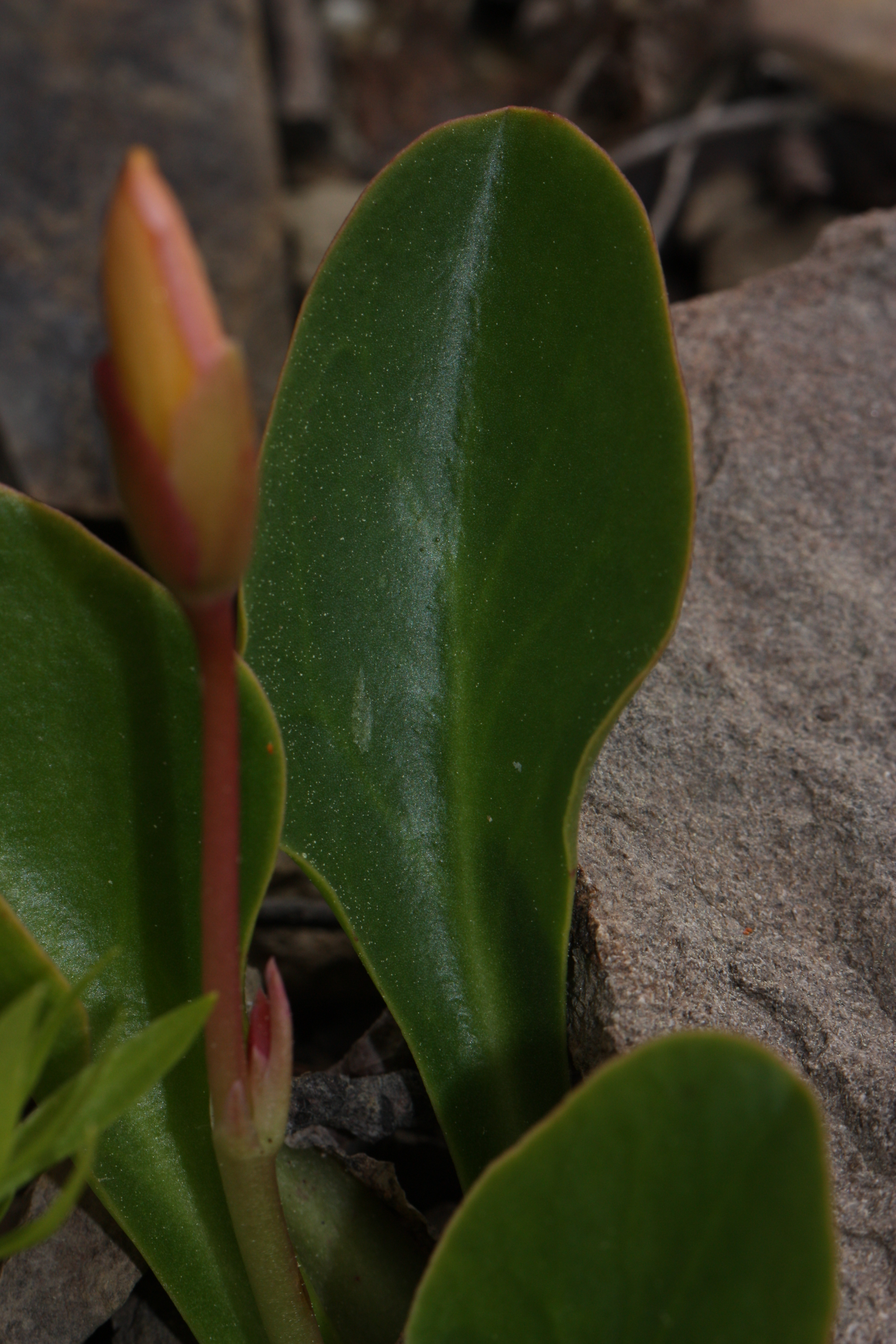 Tweedy's Lewisia Viewpoint location: Tronsen Ridge Trail #1204, Tronsen Ridge Viewpoint elevation: 1135 meter (3722 ft) Location source: Garmin GPSmap 60CSx Location Datum: WGS84